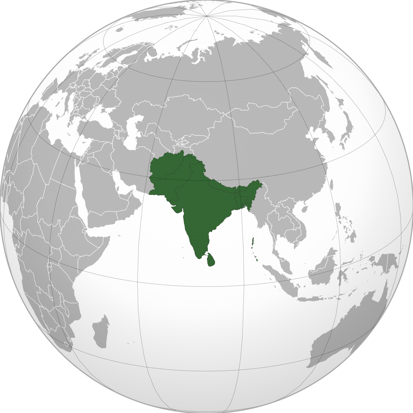 the indian subcontinent coloured in green